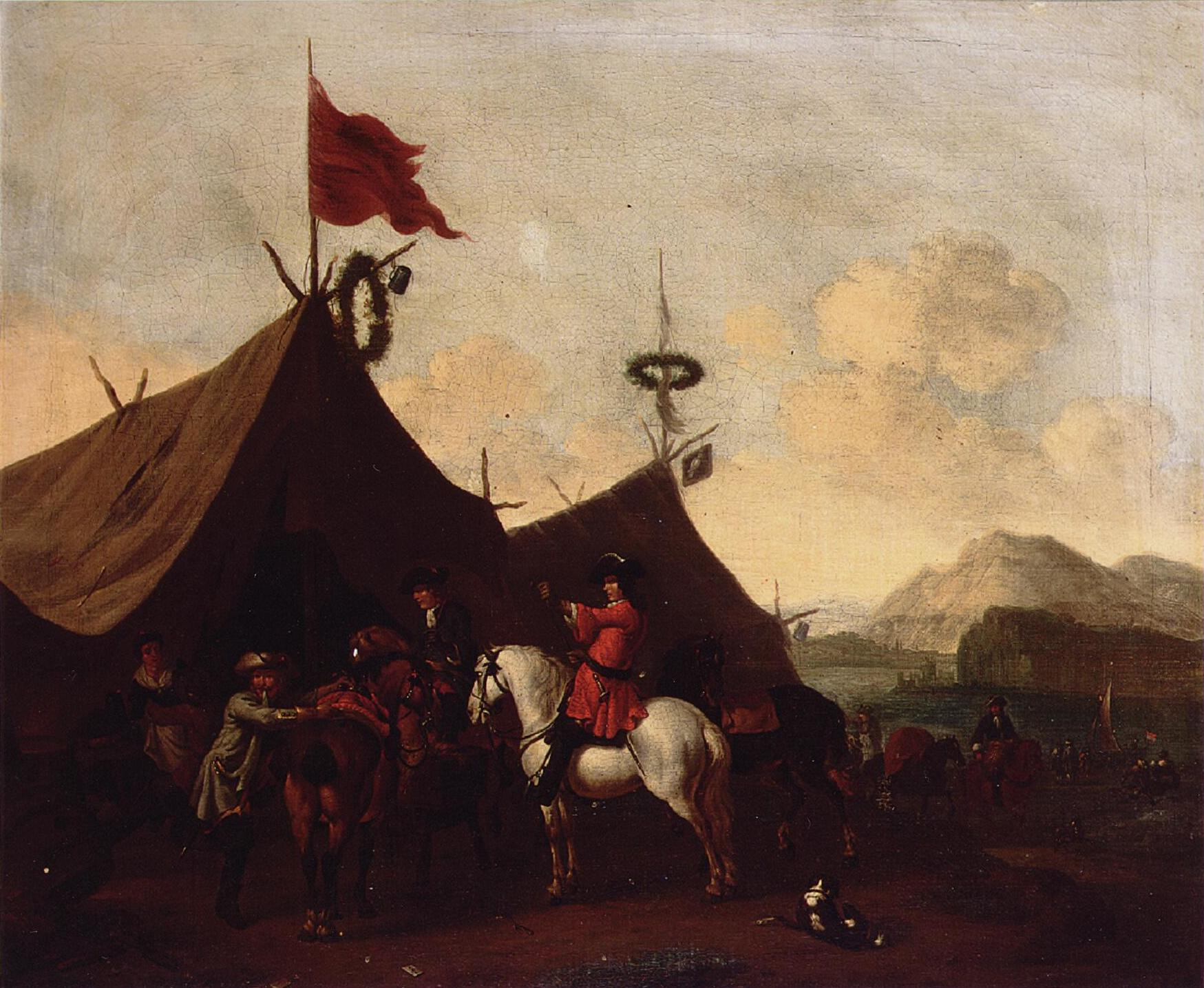 Soldiers resting outside their encampment in an Italianate landscape.